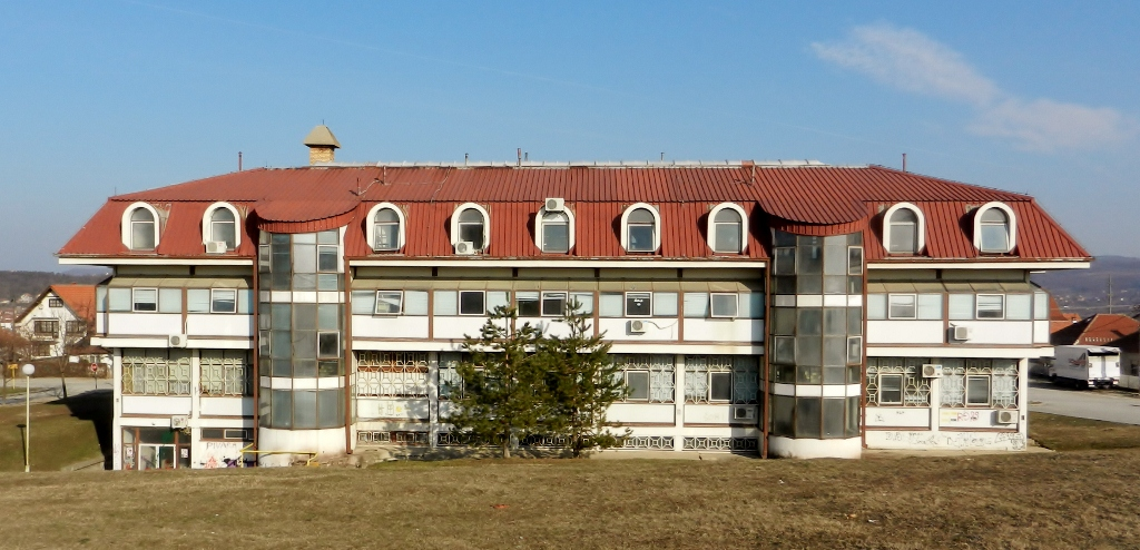 Bresnica Medical Center Kragujevac, back view, Veroljub Atanasijevic Architect 1988